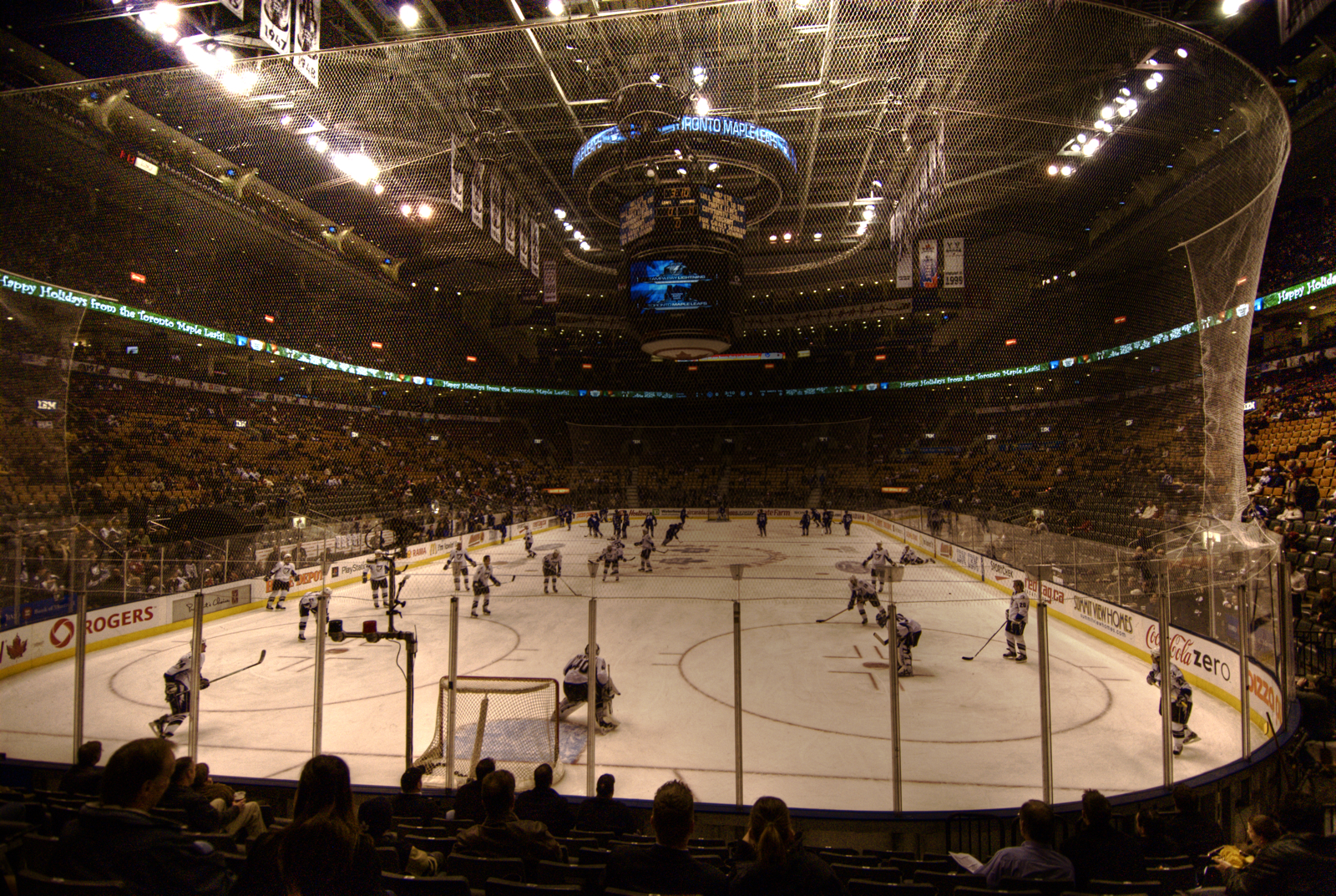 Air Canada Centre, Toronto during a Toronto Maple Leafs game vs Tampa Bay. December 2007.Toronto Maple Leafs